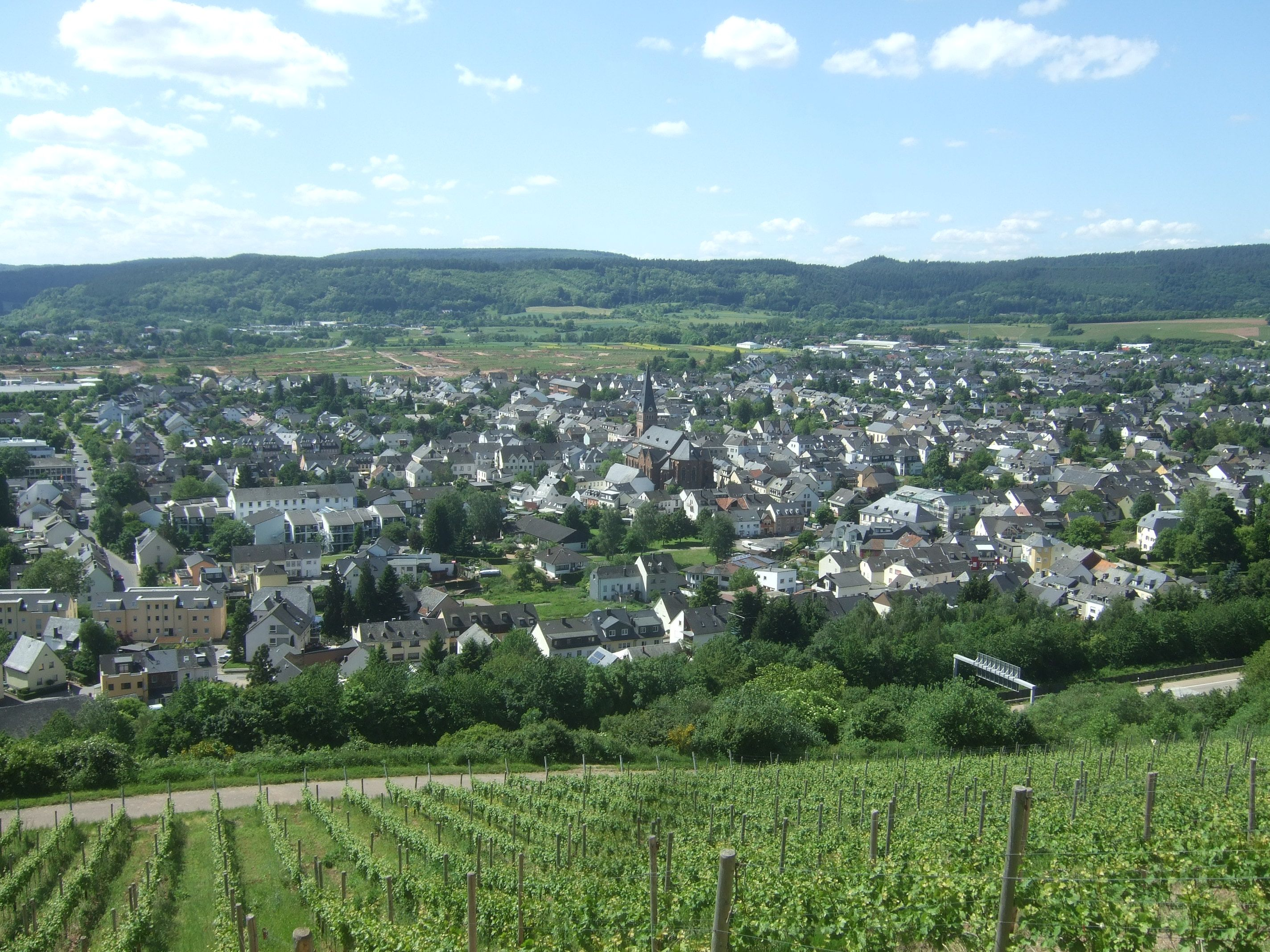 Schweich